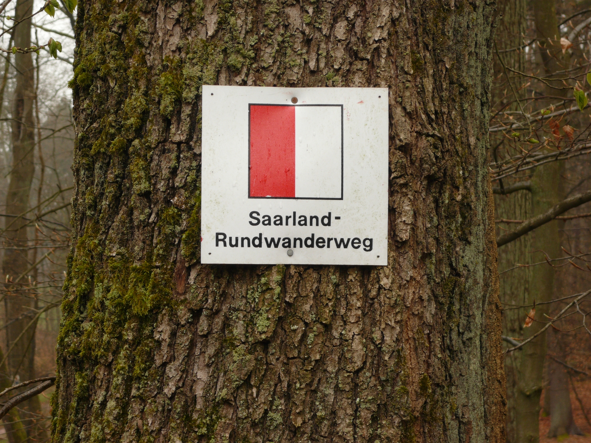 Sign at hiking route Saarland-Rundwanderweg